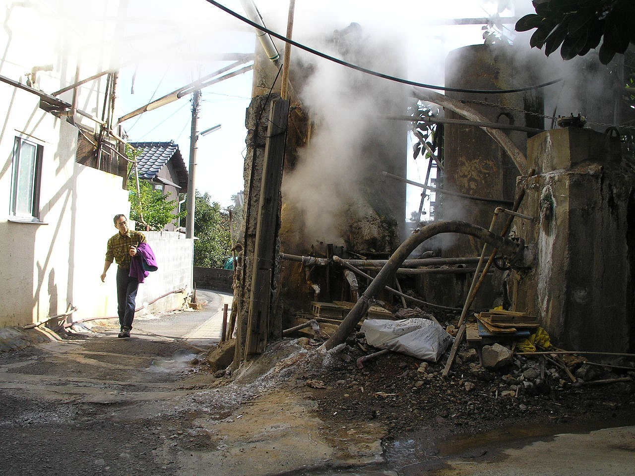 A hotspring well of Kannawa Hotsprings